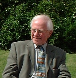 Hal Dixon in 2001, cut down from a photograph taken by me